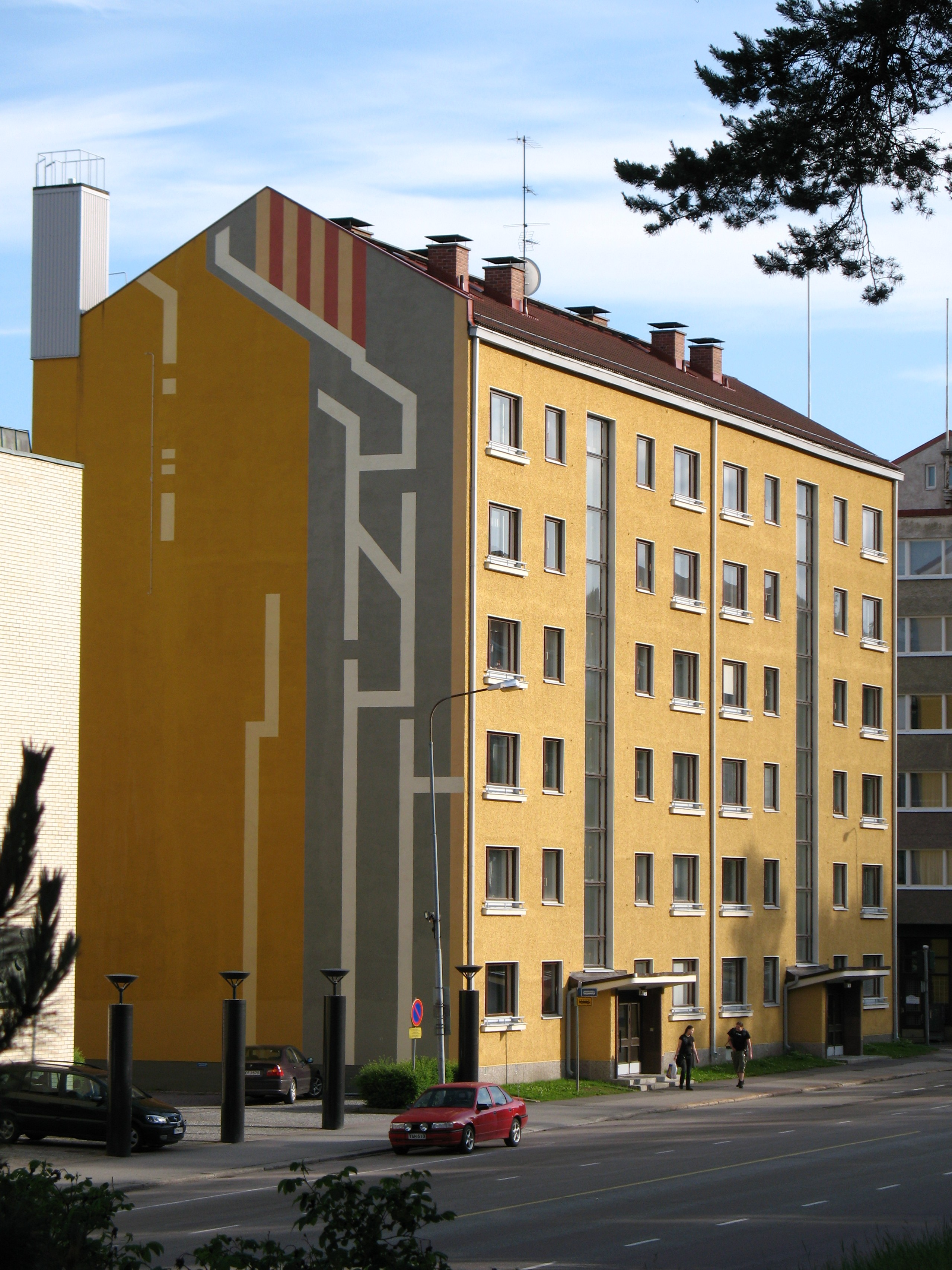 An apartment building located at Yliopistonkatu street in Jyväskylä, Finland. Wall painting is made by Jaakko Valo in 1988.